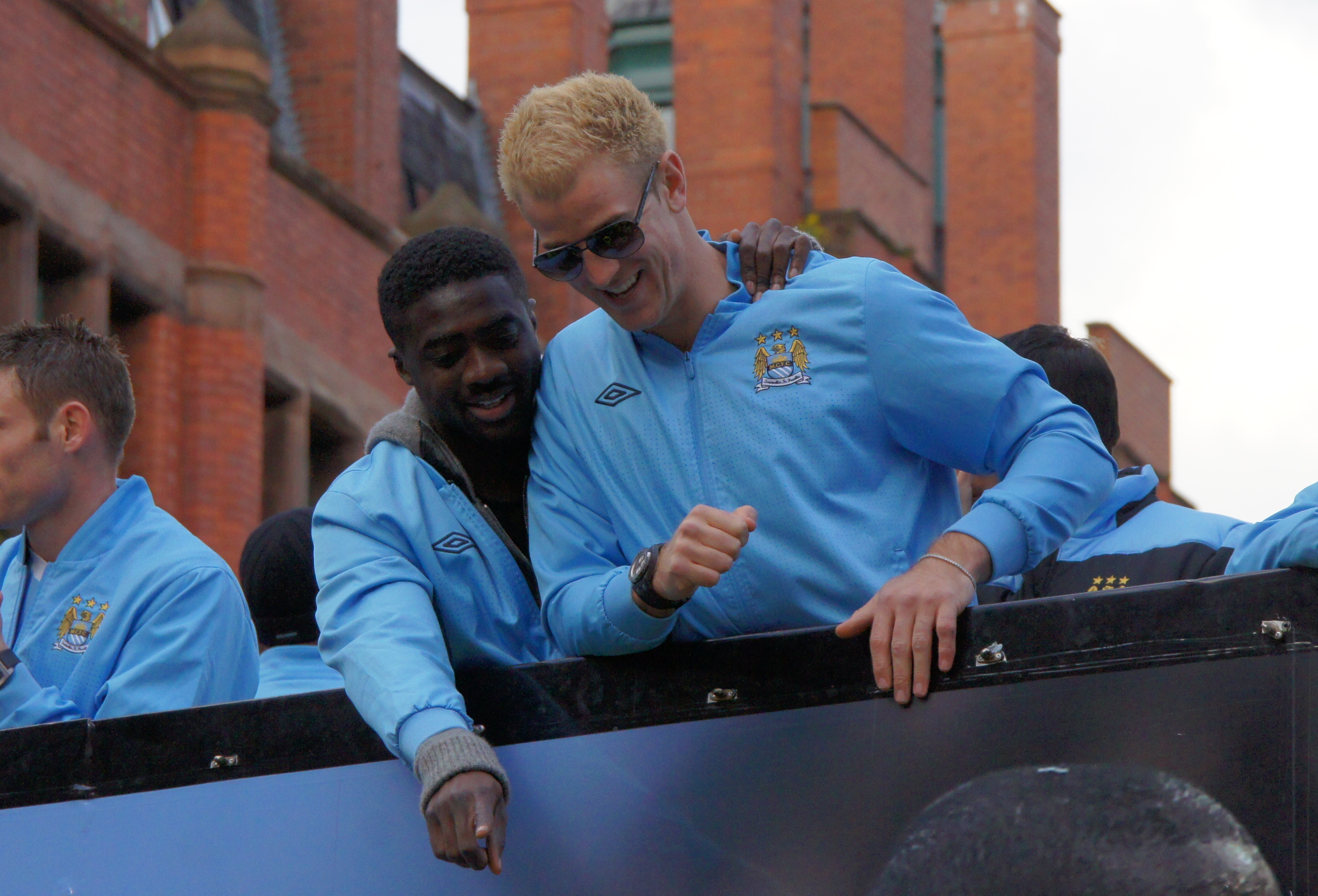 Joe Hart and Kolo Toure at the Manchester City FC Premier League parade in May 2012